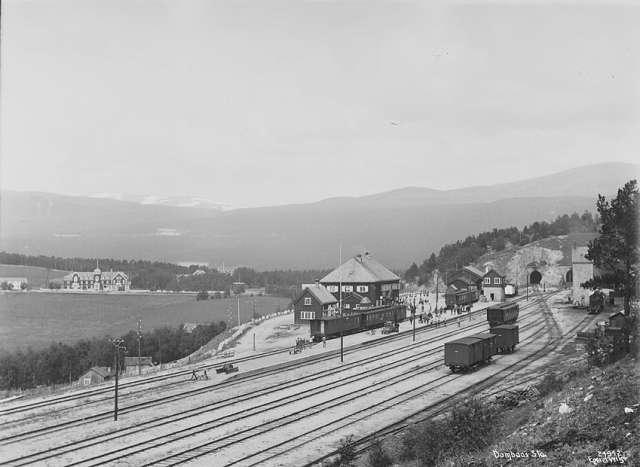 Dombås Station on the Dovrebanen railway line.